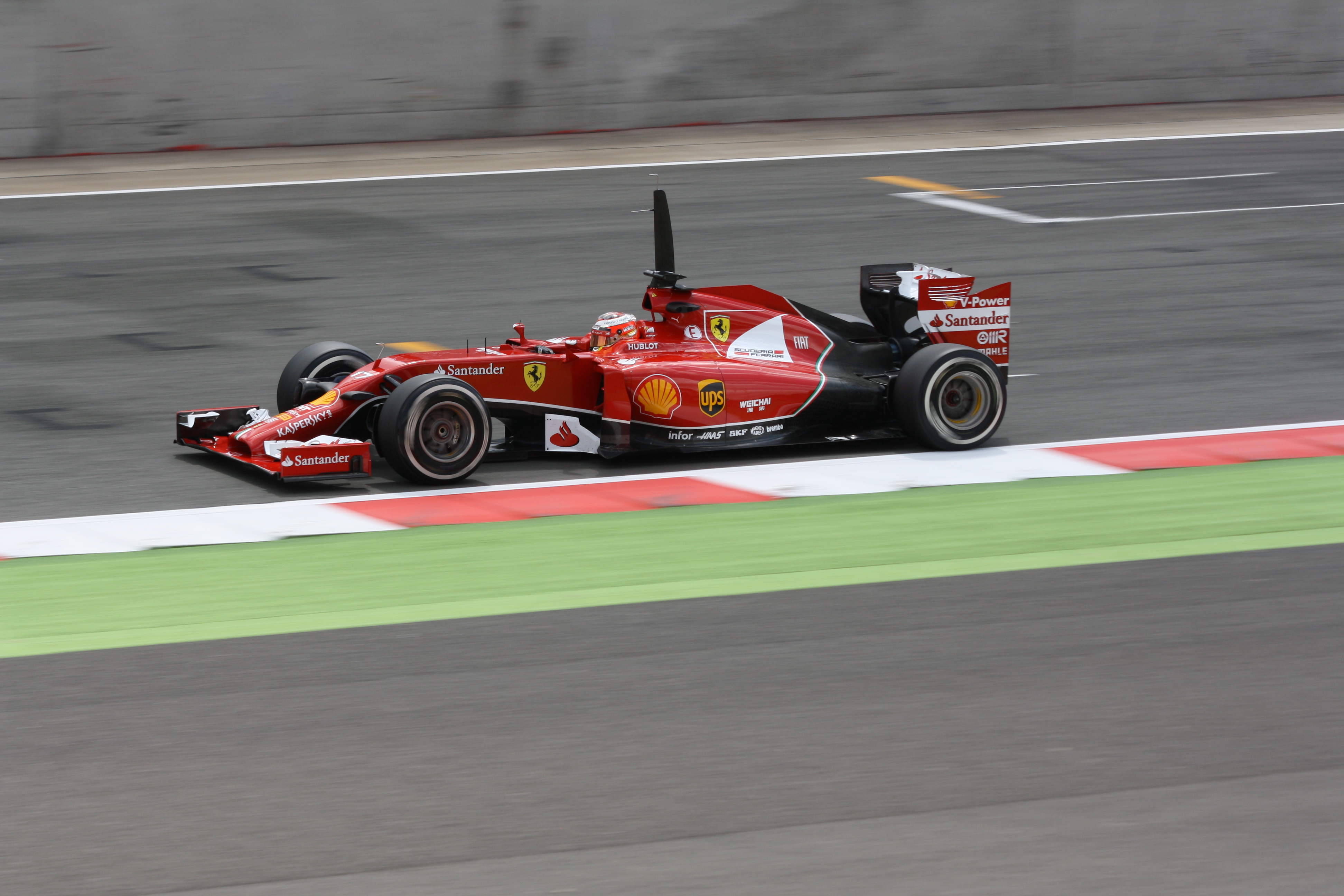 Bianchi in Ferrari F14 T at 2014 Silverstone test.